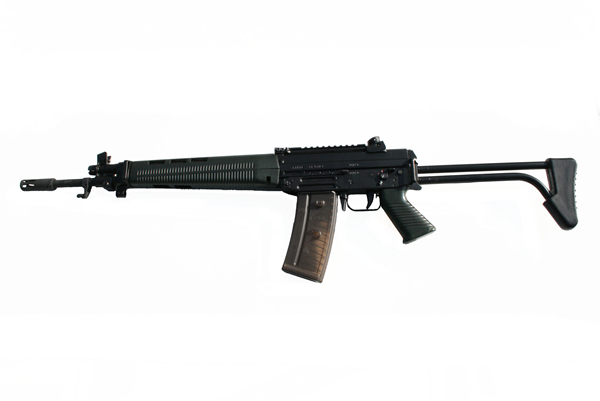 SIG SG 540-1 Assault Rifle manufactured in Chile by FAMAE (Fabricas y Maestranzas del Ejército)